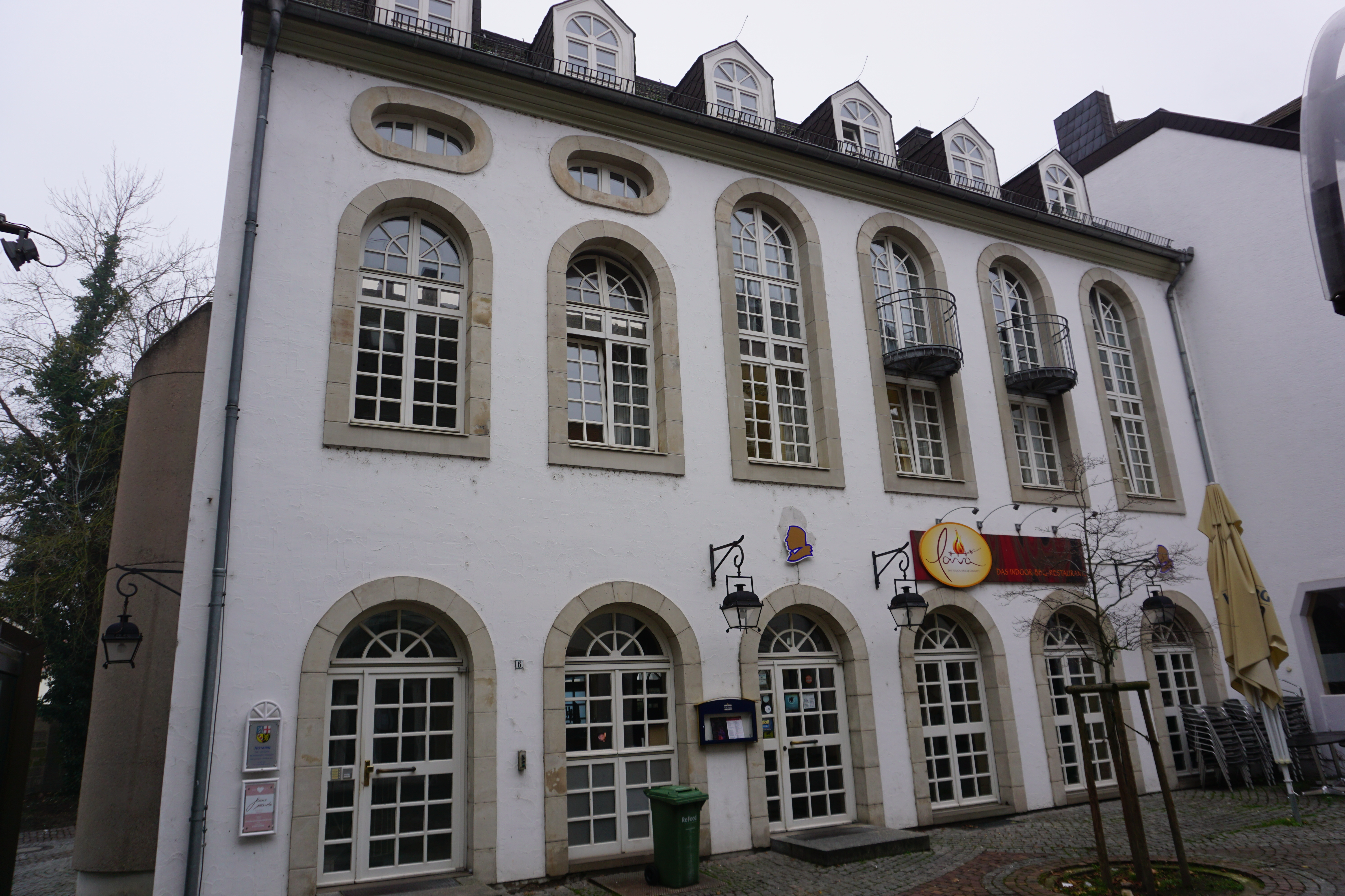 Former synagogue Saarlouis. Postgaesschen 6, a new building erected in 1987 which is architecturally oriented to the synagogue demolished in 1983. Photo of the building front in the inner courtyard between Postgaesschen and Silberherzstraße.